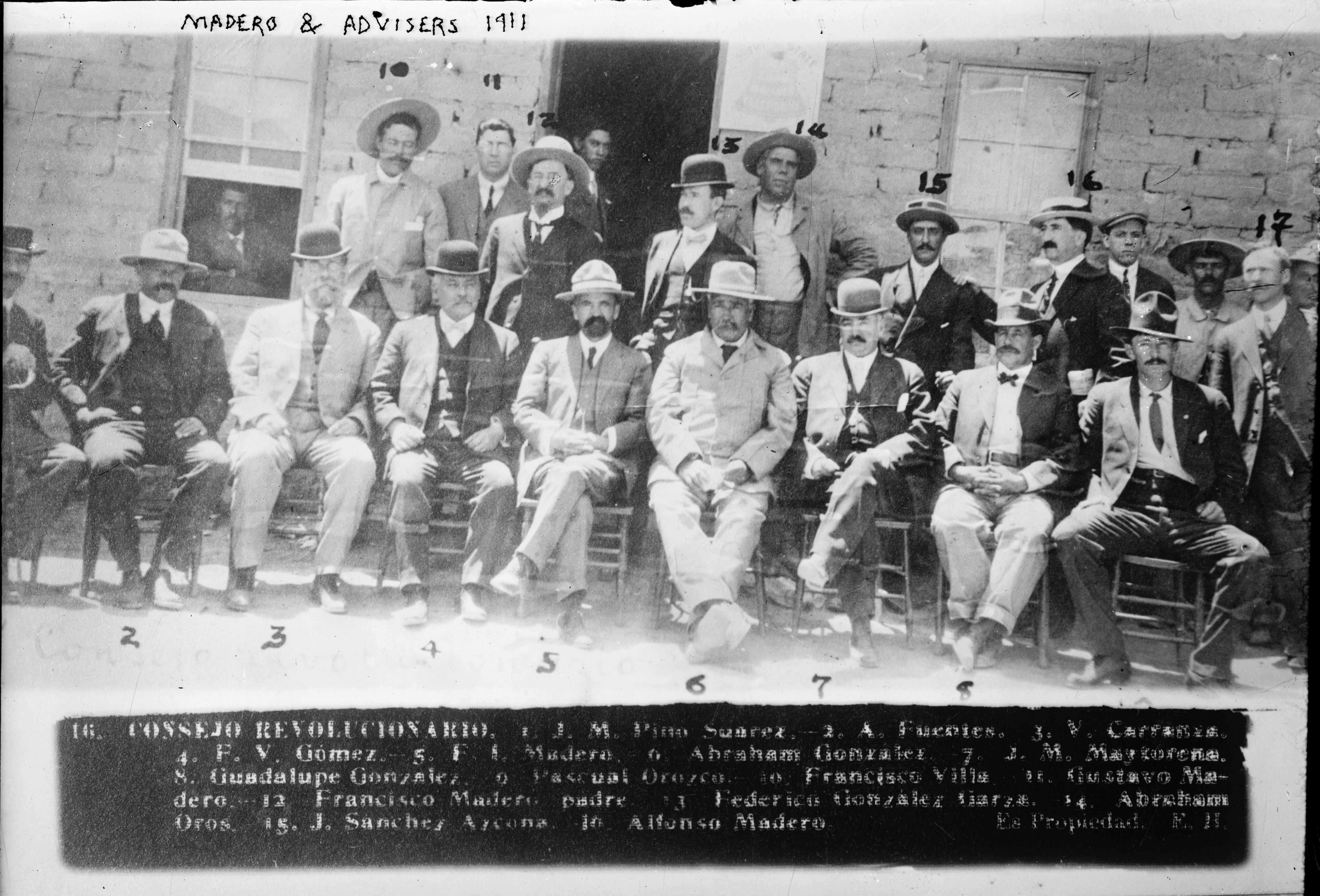 Photo shows Francisco Ignacio Madero, President of Mexico (1911-1913) seated in middle of front row at #5. (Source: Flickr Commons project, 2008) Legend below photo also identifies: (1) J.M. Pino Suarez (2) A. Fuentes (3) V. Carranza [i.e., Venustiano Carranza] (4) F.V. Gomez [i.e., Francisco Vaquez Gomez] (5) F.I. Madero (6) Abraham Gonzales, (7) J. M. [...] (8) Guadalupe Gonzalez (9) Pascaual Orozco (10) Francisco Villa [Pancho Villa] (11) ? Madero, (12) Francisco Madero padre (13) Federico Gonzalez [...], (14) Abraham Oros (15) Sanchez A[...] (16) Alfonso Madero.